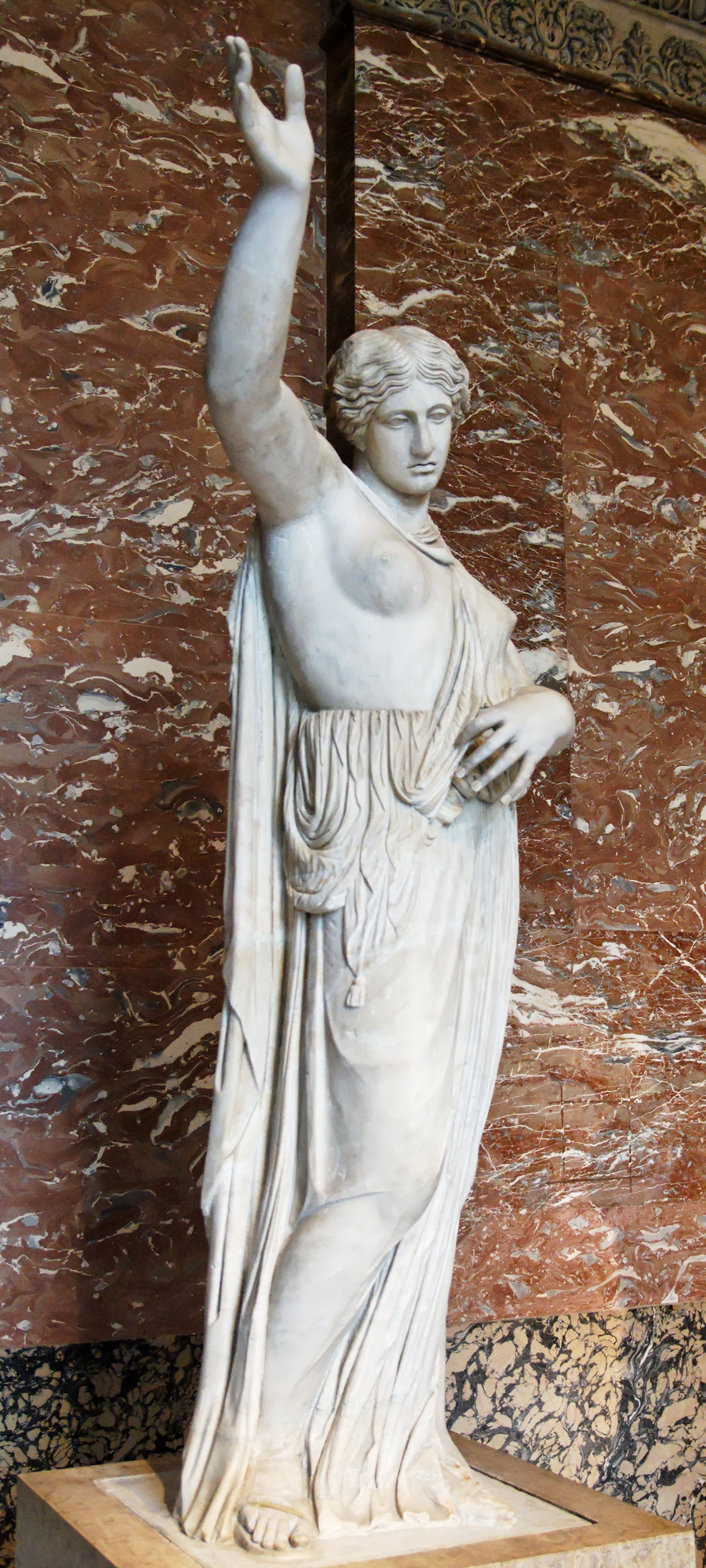 Wounded Amazon of the Sosikles type. Pentelic marble, Roman copy of the Imperial era after a Greek original of the 5th century BC. The nose, part of the chin, the left arm and right forearm are modern restorations.